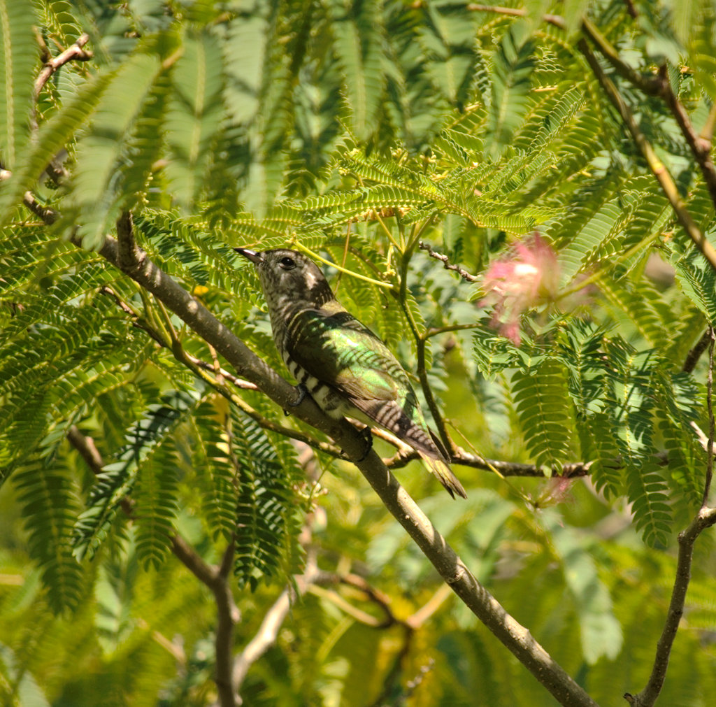 Shining cuckoo in partial shadow of wattle leaves